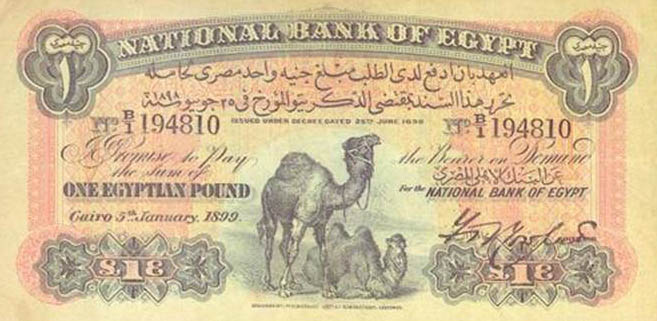 The first one Egyptian Pound banknote issued in 1898.